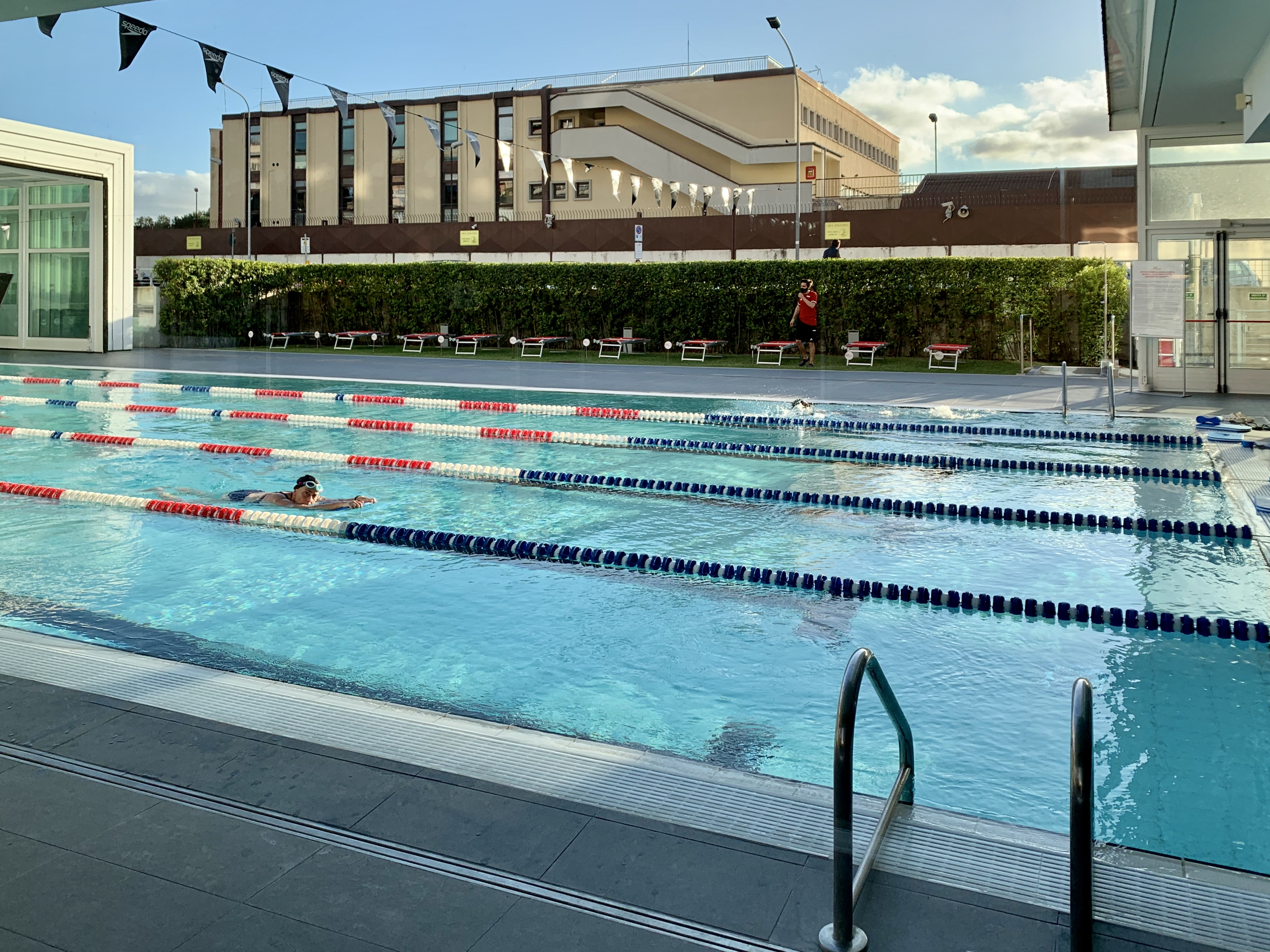 Open air swimming pool in Rome, Italy, June 2020